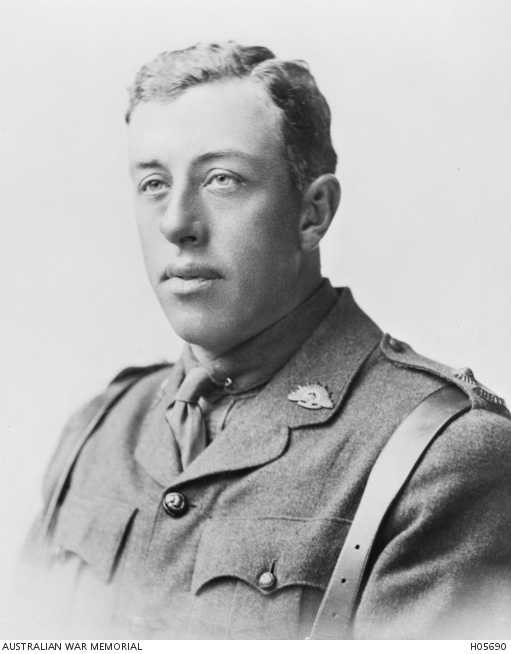 Studio portrait of 2nd Lieutenant (2 Lt) Edward Lionel Austin Butler, 12th Battalion, of Hobart, Tas. A solicitor prior to enlistment, 2 Lt Butler embarked with the 16th Reinforcements from Melbourne on RMS Orontes on 29th March 1916. On 23rd August 1916 he died of wounds received in action and was buried in the Puchevillers British Cemetery, France.